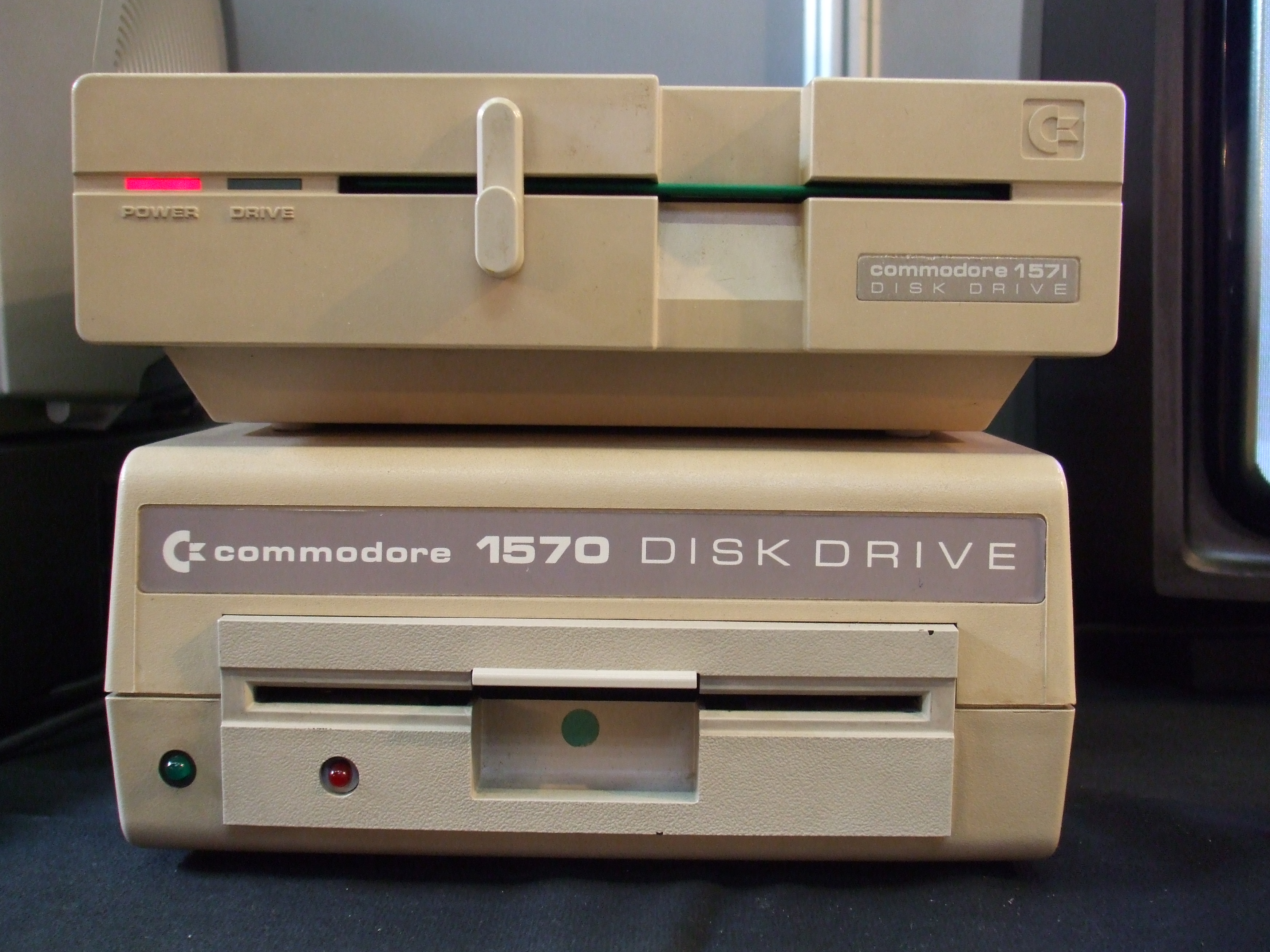 Commodore 1570 & Commodore 1571 drives